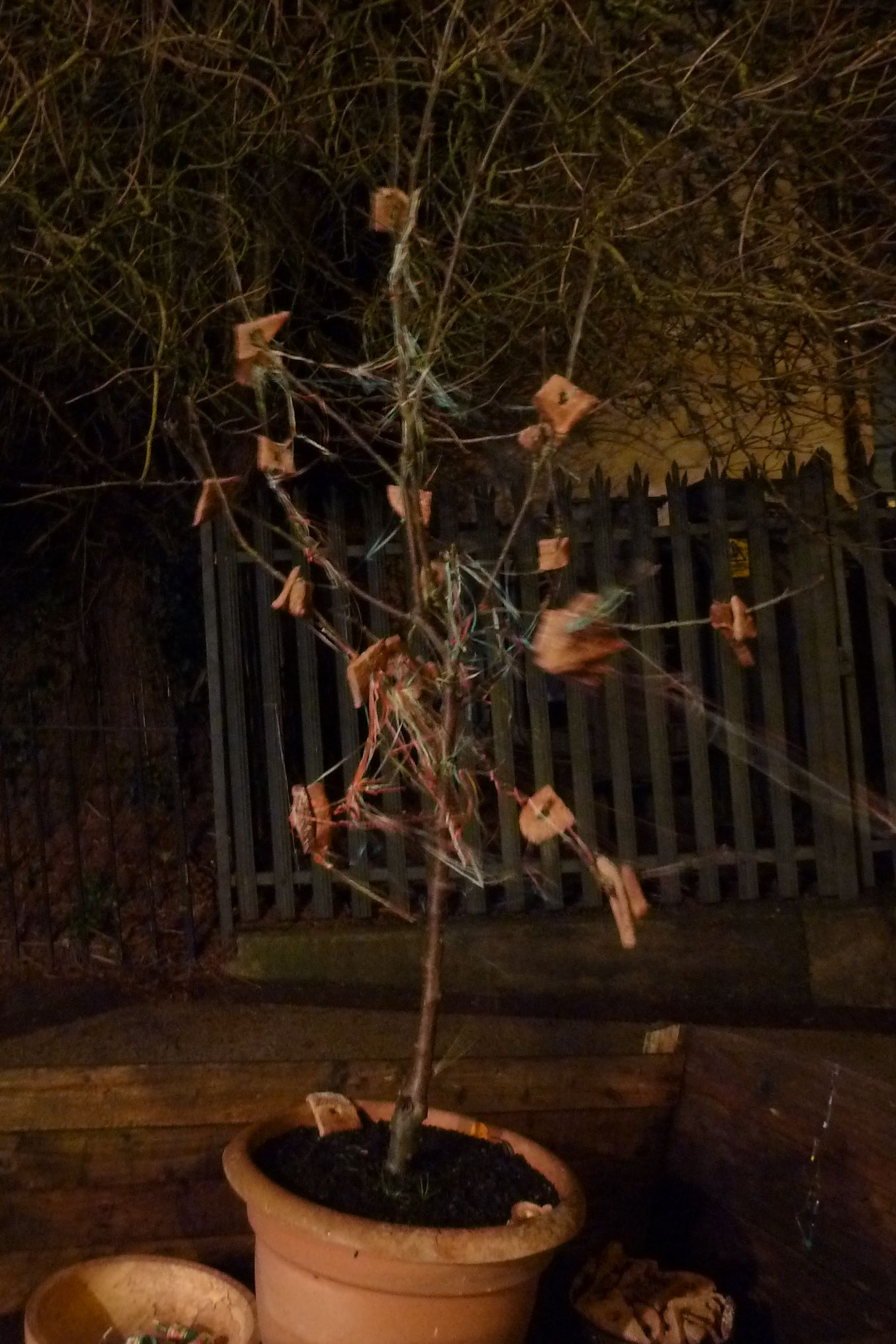 Toast hung on an apple sapling during a Wassail at the Mari Lwyd, Chepstow, January 2014